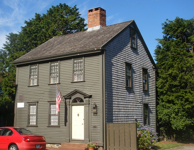 Gideon Cornell house, 3 Division Street, Newport, Rhode Island, owned and restored by the Newport Restoration Foundation